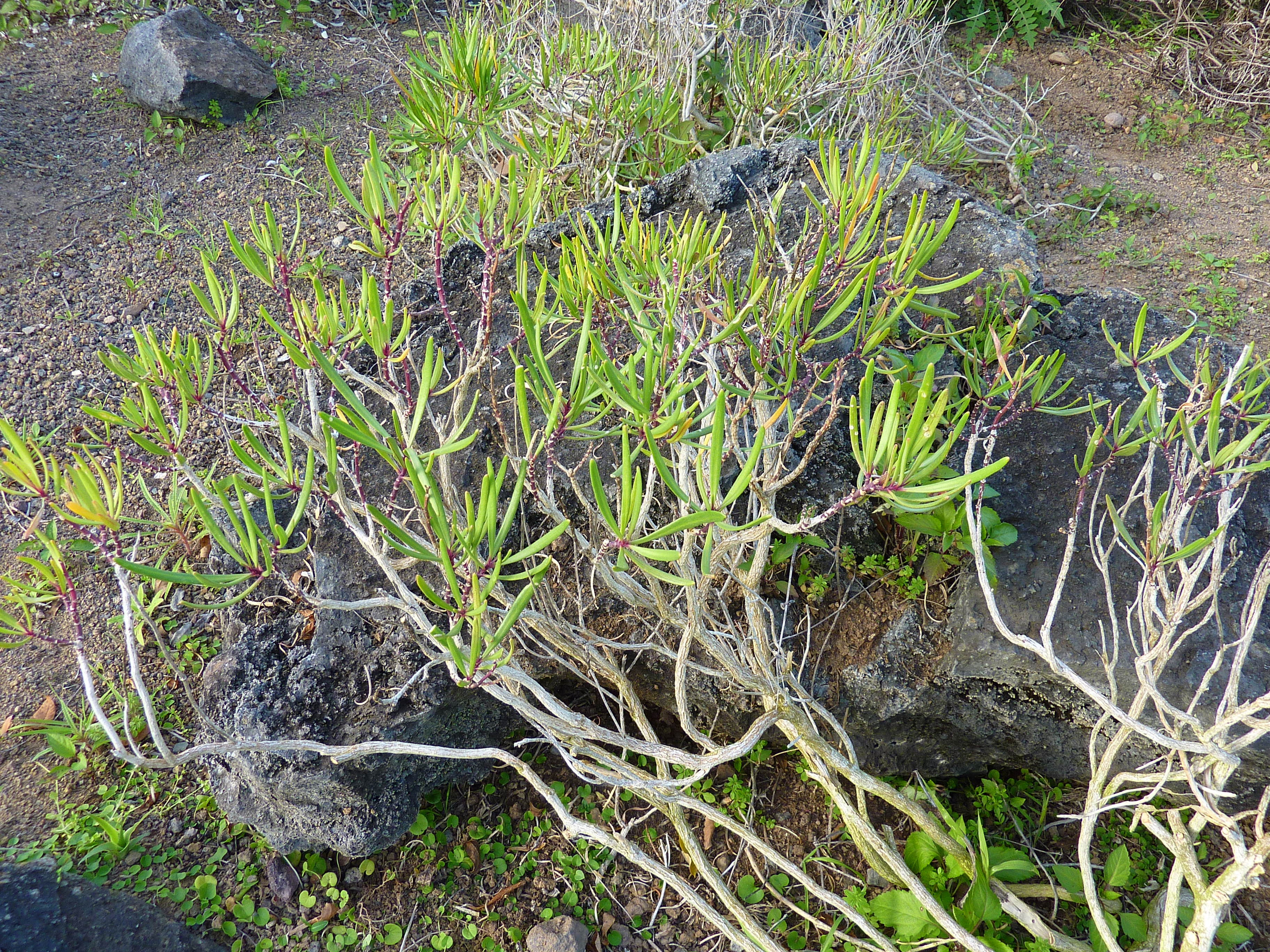 Sinapidendron angustifolium in the Jardín Botánico Canario Viera y Clavijo.